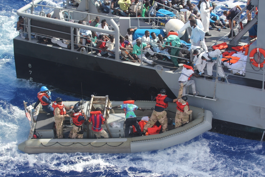 MEDITERRANEAN SEA (Oct. 17, 2013) Distressed persons are transferred from the amphibious transport dock ship USS San Antonio (LPD 17) to Armed Forces of Malta offshore patrol vessel P52. San Antonio provided food, water, medical attention, and temporary shelter to the rescued. San Antonio rescued 128 men adrift in an inflatable raft after responding to a call by the Maltese Government. (U.S. Navy photo/Released) 131017-N-ZZ999-009 Join the conversation navylive.dodlive.mil